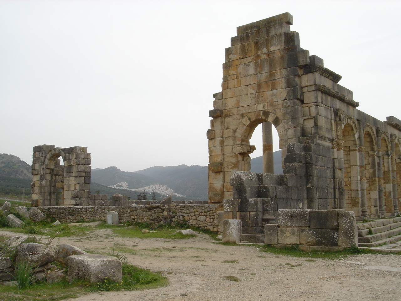 Volubilis showing town of Moulay Idris in the distance